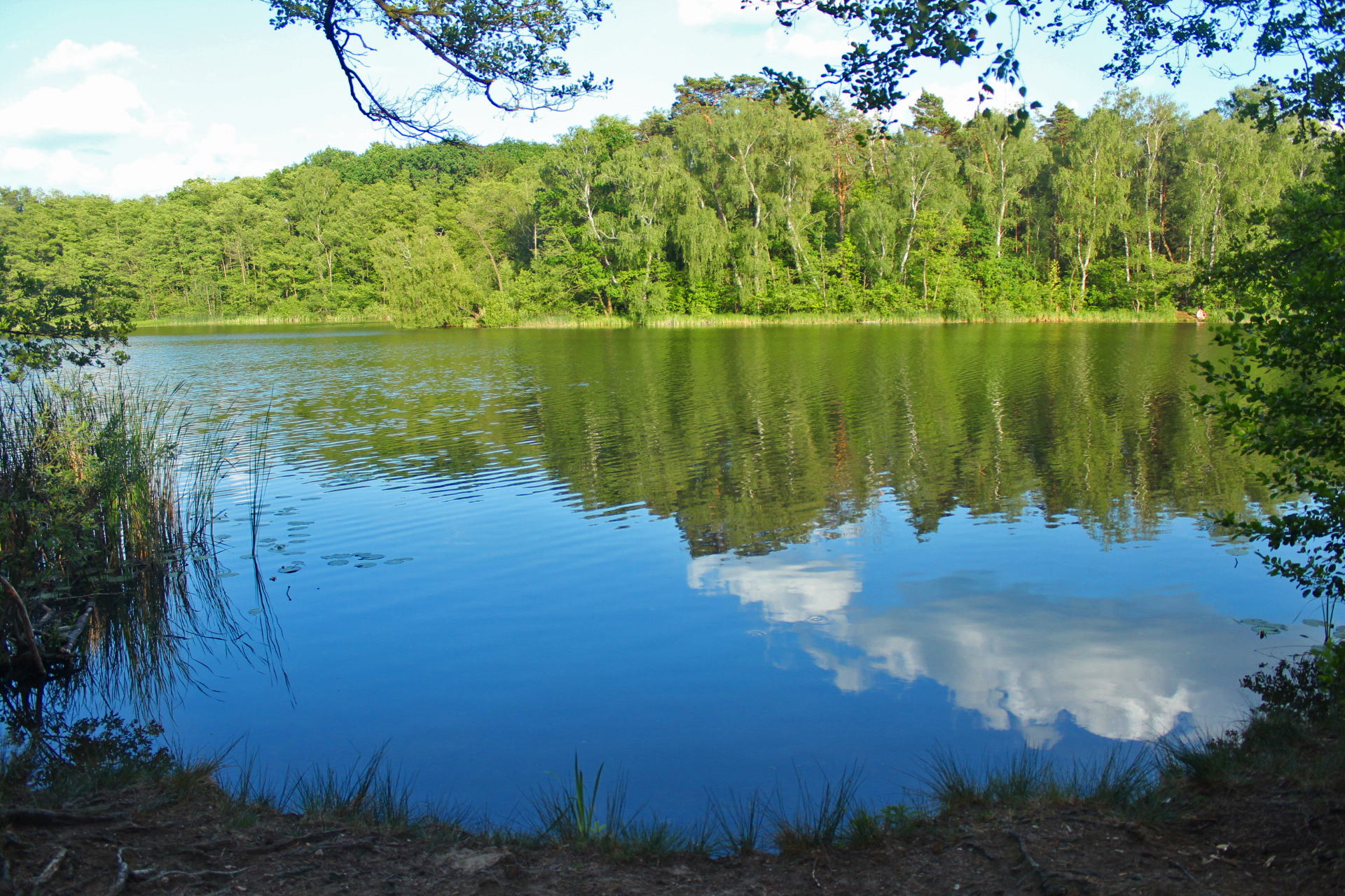 Krumme Laake in Berlin in the natural reserve of Müggelheim. Don't confuse this lake with the little river Krumme Lake in Grünau.